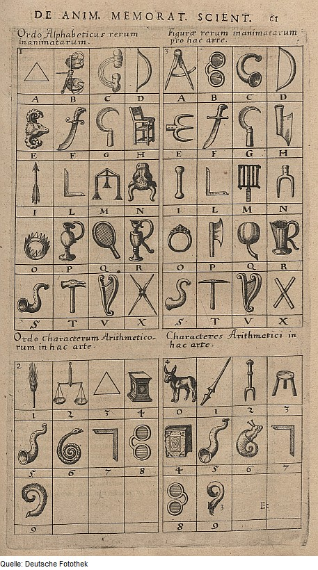 Original image description from the Deutsche FotothekTheosophie & Philosophie & Judentum & Kabbala & Mnemotechnik & Alphabet